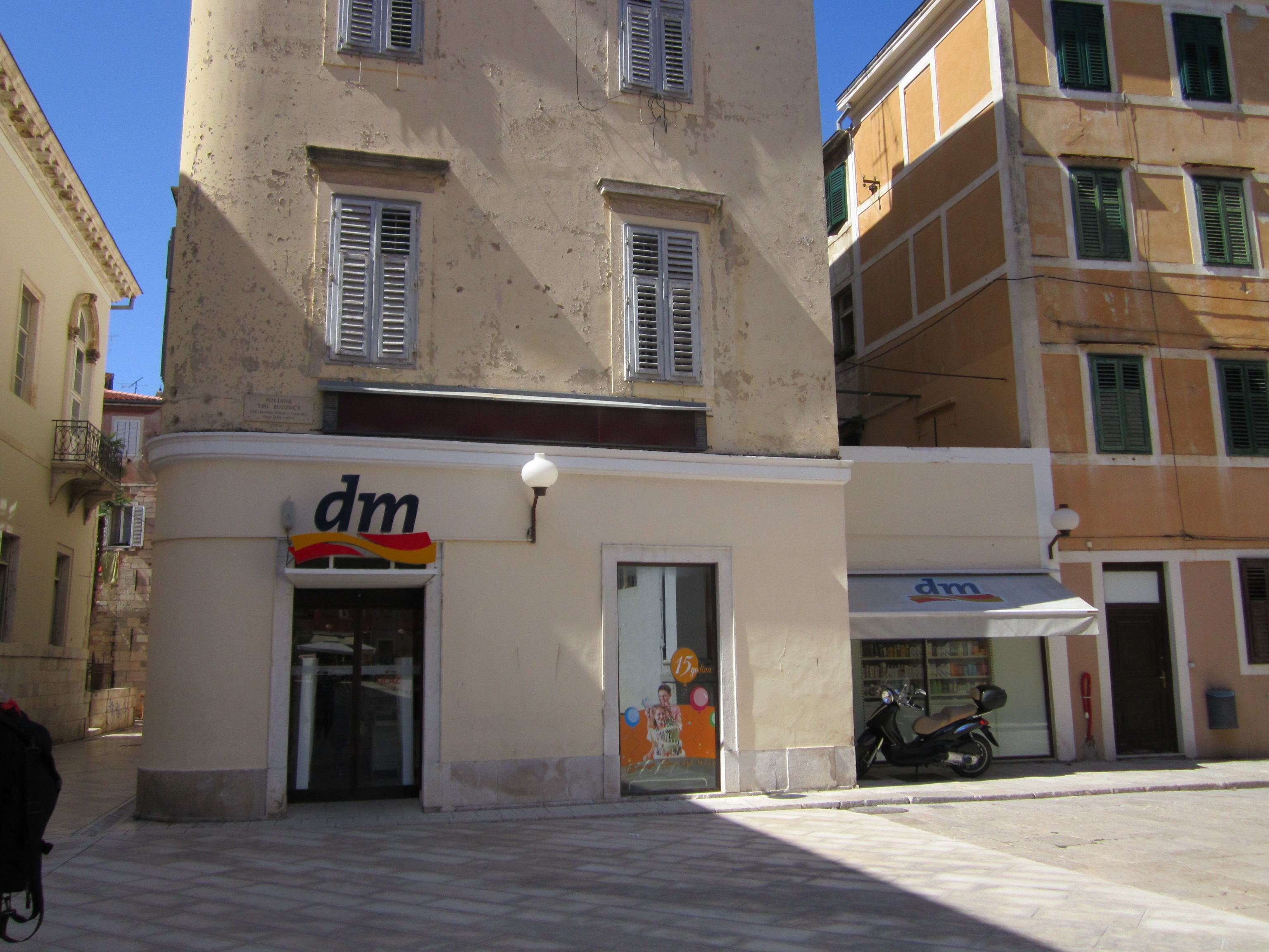 dm drogerie markt in Zadar, Croatia